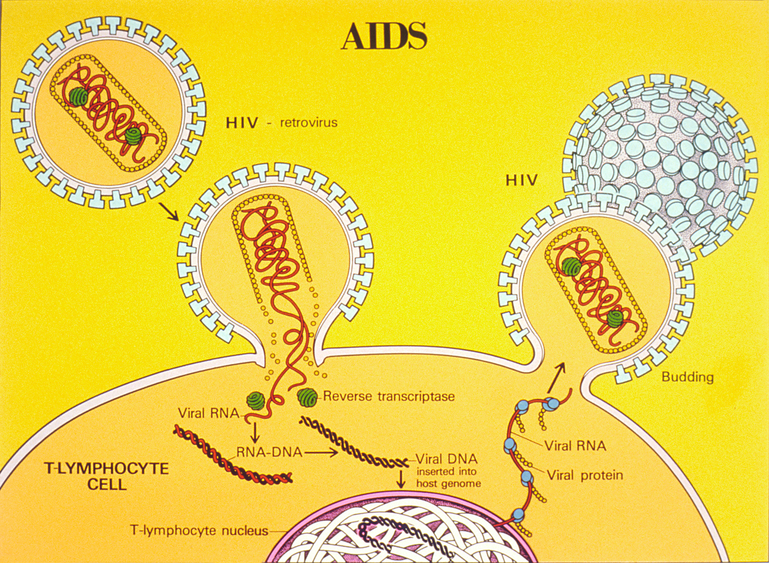 Title AIDS Life Cycle Illustration Description The human immunodeficiency virus (HIV-I) enters the T-lymphocyte where the virus loses its outer envelop, releasing its RNA and its reverse transcriptase. The reverse transcriptase builds a complementary DNA strand from the viral RNA template. The DNA helix is inserted into the host genome. When this is transcribed by the infected cell, the new viral RNA and proteins are produced to form new viruses that then bud from the cell membrane, thus completing the life cycle of the virus. See artwork: GR-32. Topics/Categories Cancer Types -- AIDS-Related Type Color, Illustration Source National Cancer Institute